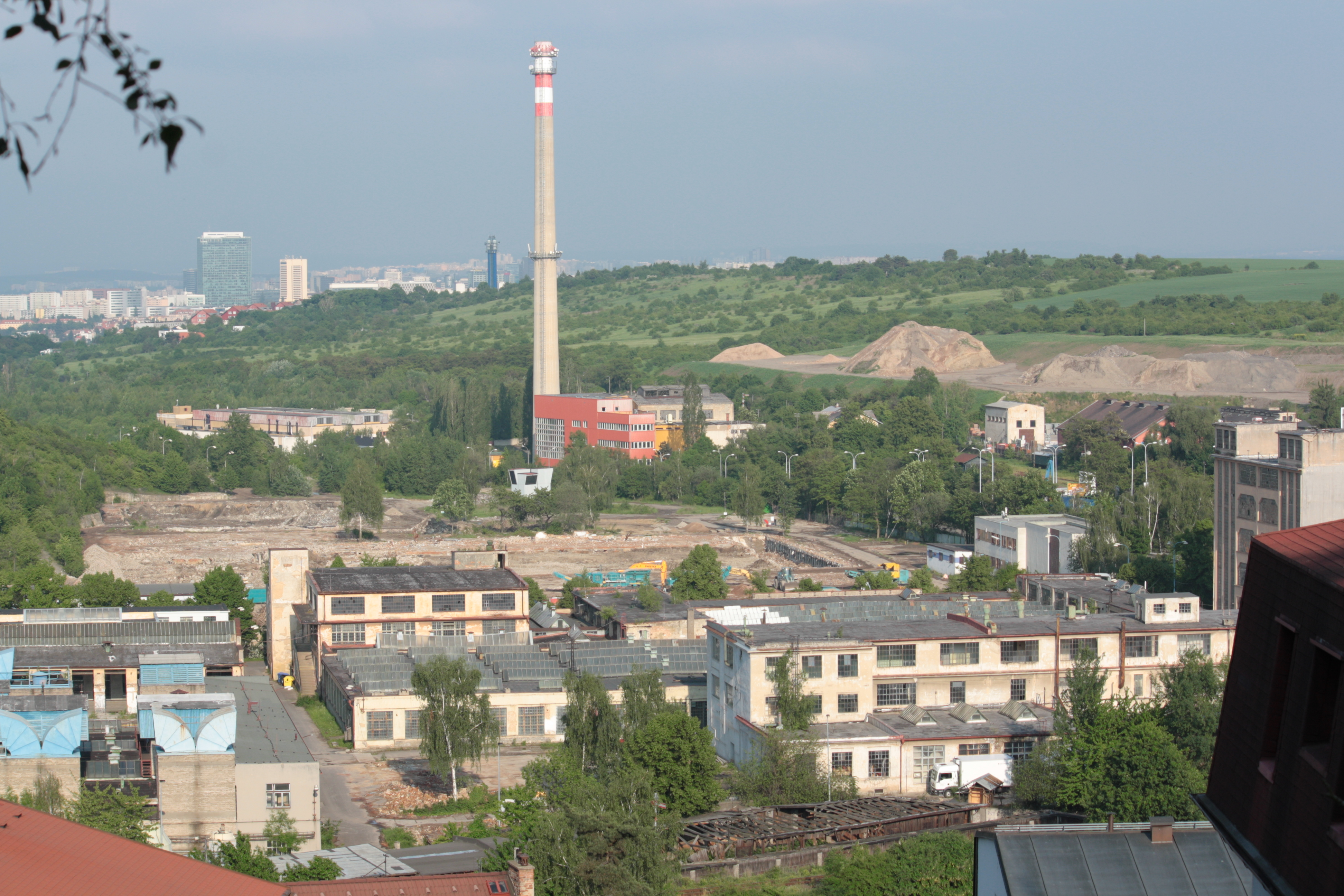 Former complex of Walter factory in Prague-Jinonice, Czech Republic